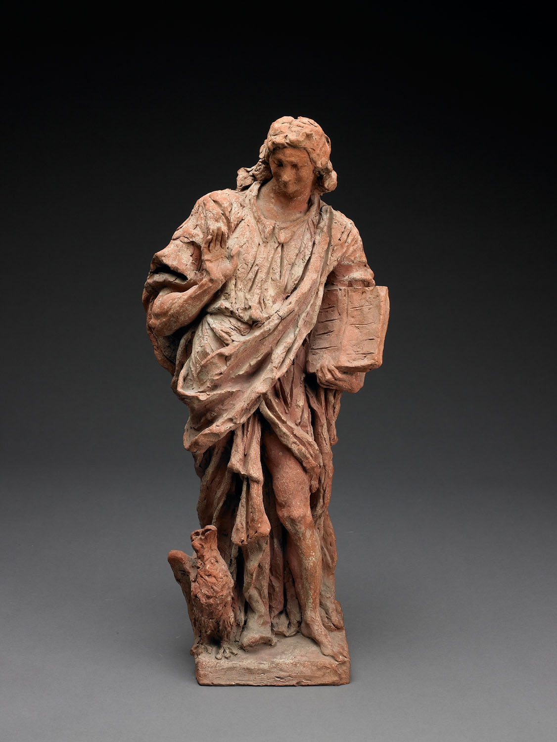 A terracotta sculptural model of Saint John the Evangelist. Part of a larger set of the four evangelists (Matthew, Mark, Luke, and John).